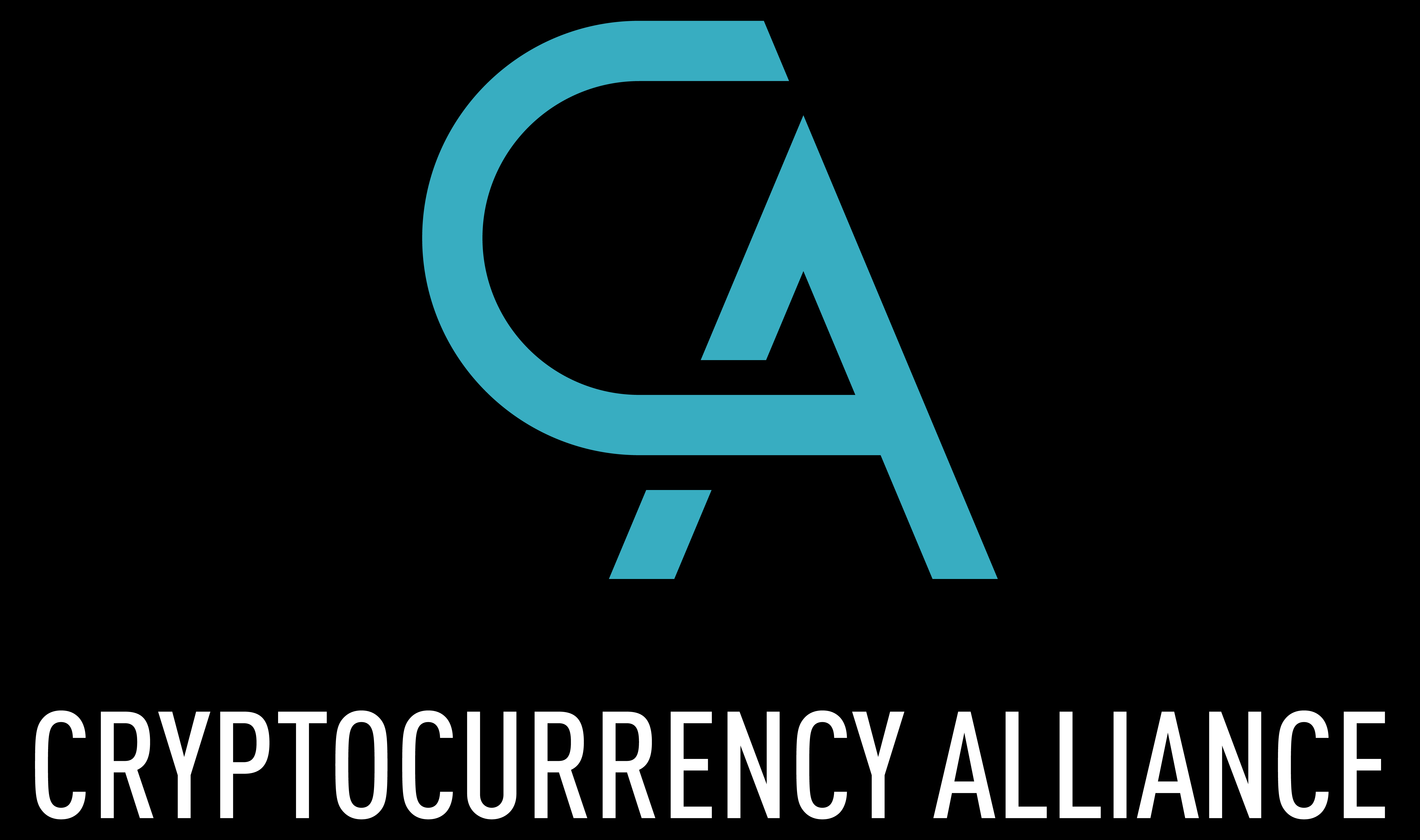 An example of the legal groups formed to protect consumer interests in cryptocurrency.